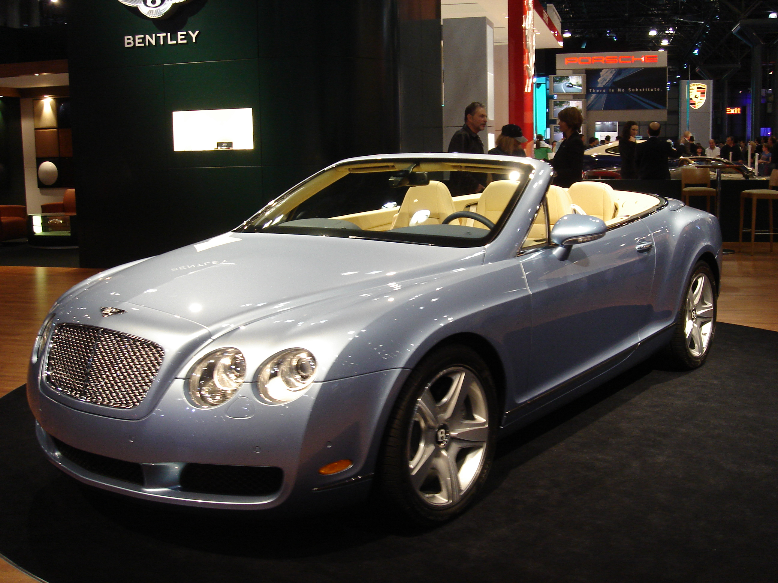 Bentley Continental GTCBentley 2007 Continental GTC - 1